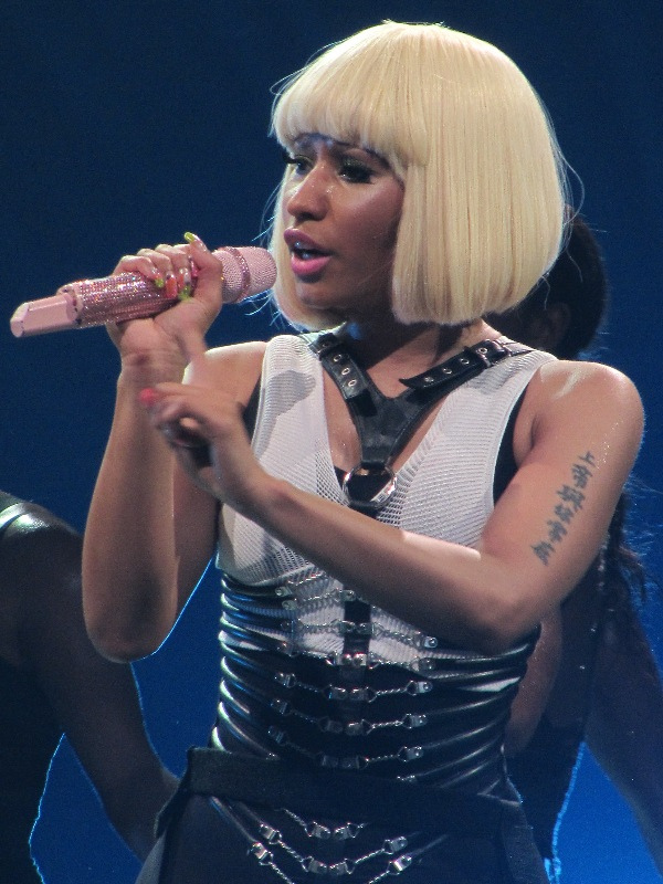 Nicki Minaj Starships.